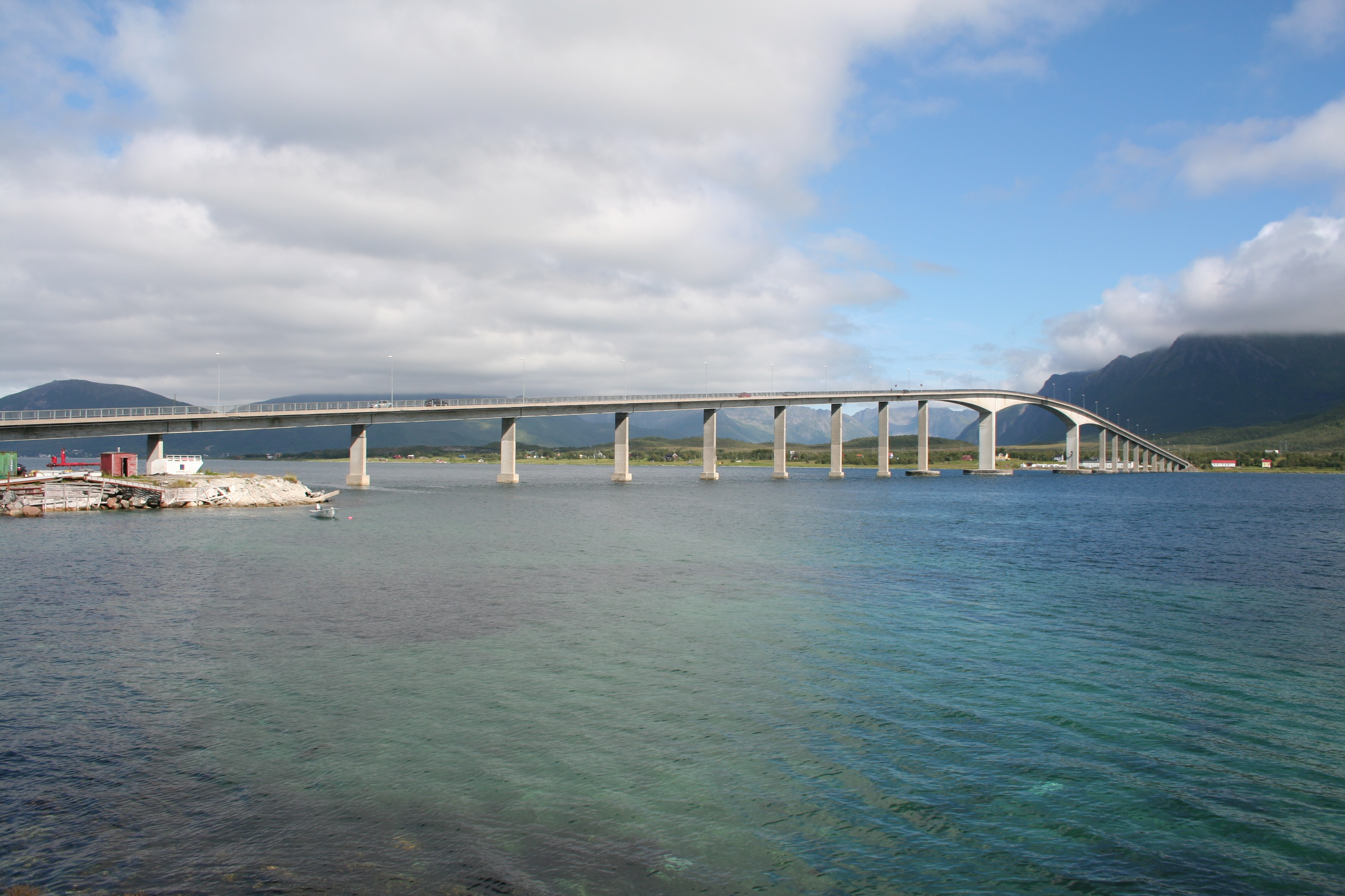 Sortland Bridge in Norway. This picture was taken by me on 24 July 2006.